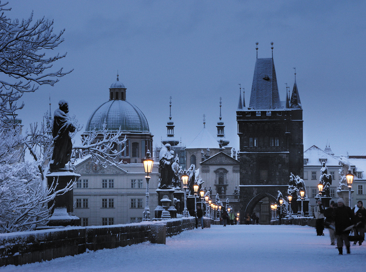 Snowy Charles Bridge